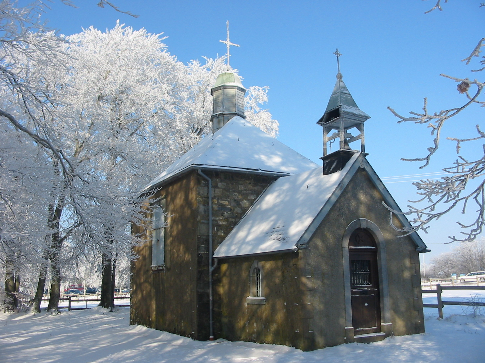 Belgium, Chapel Fischbach near Baraque Michel